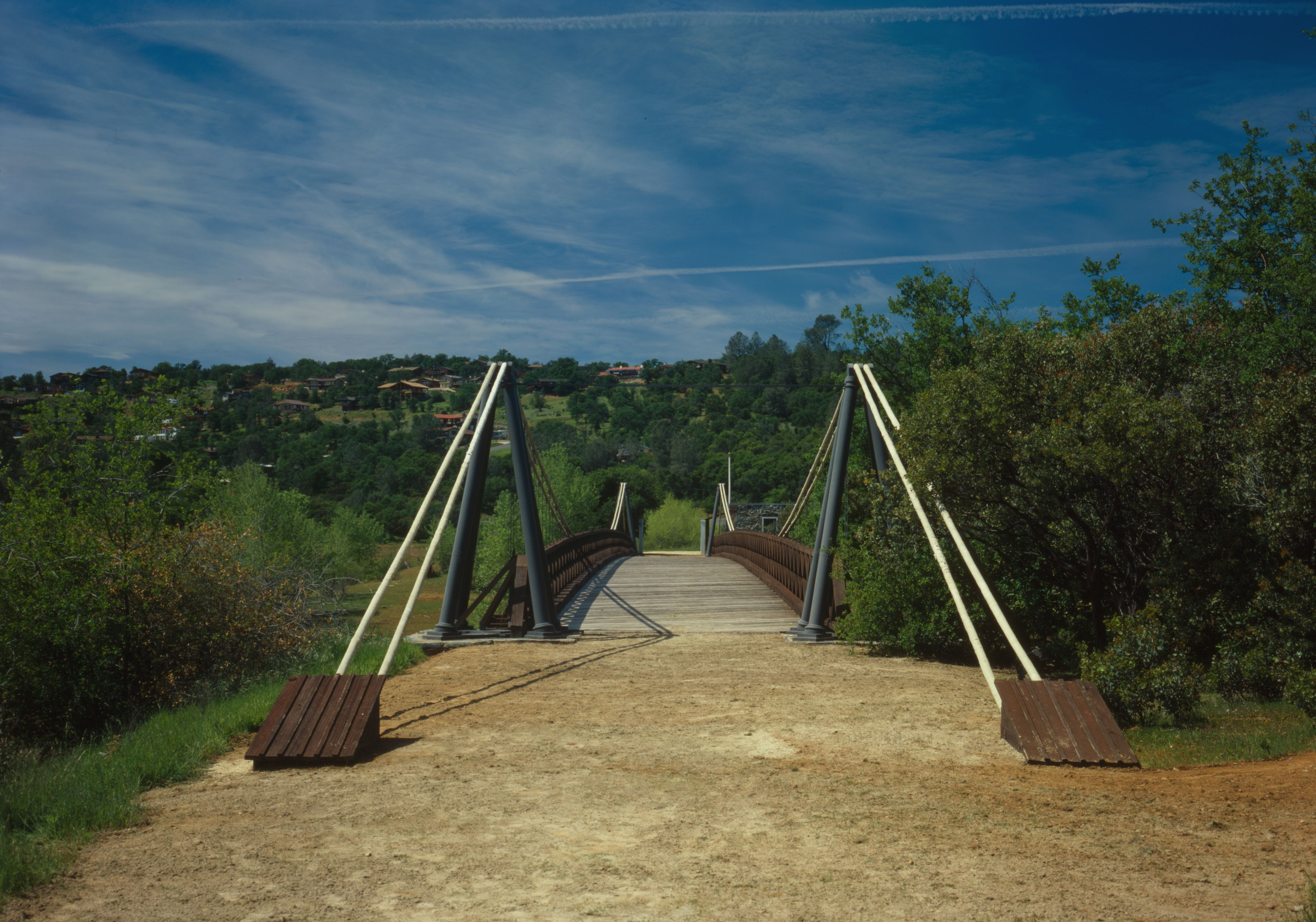 The "Old" Bidwell Bar Bridge — originally spanning the Feather River, in Butte County, California. Relocated beside Lake Oroville, after construction of the Oroville Dam and submersion of the site by Lake Oroville. Built in 1855, it is first steel suspension bridge in California, a National Historic Civil Engineering Landmark, and a California Historical Landmark.